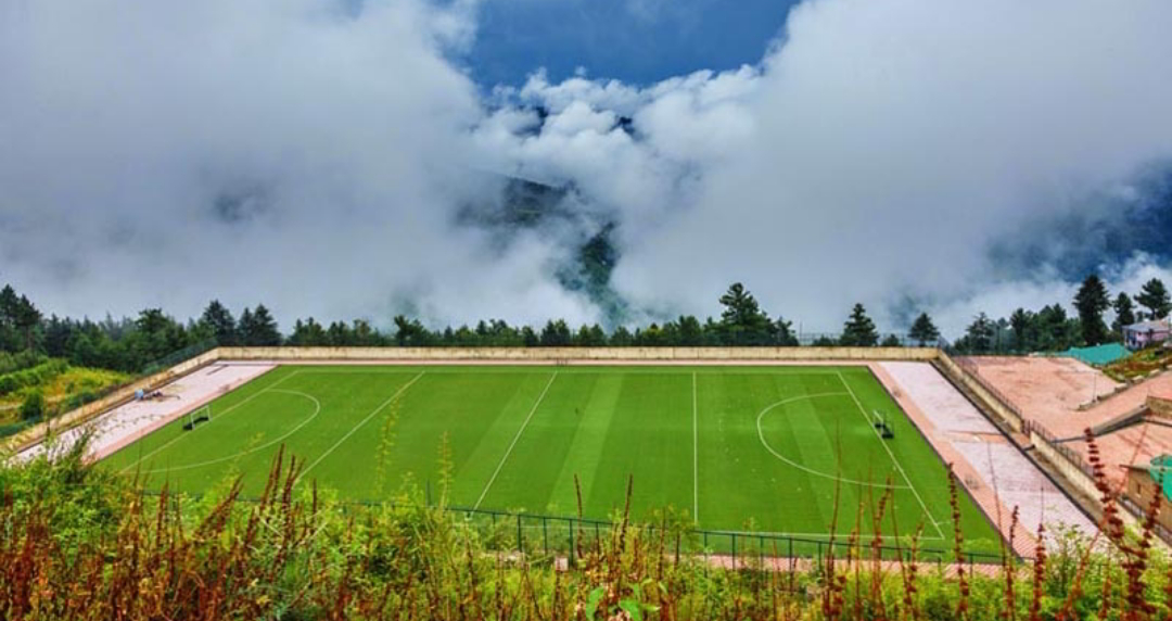 High altitude SAI hockey stadium.